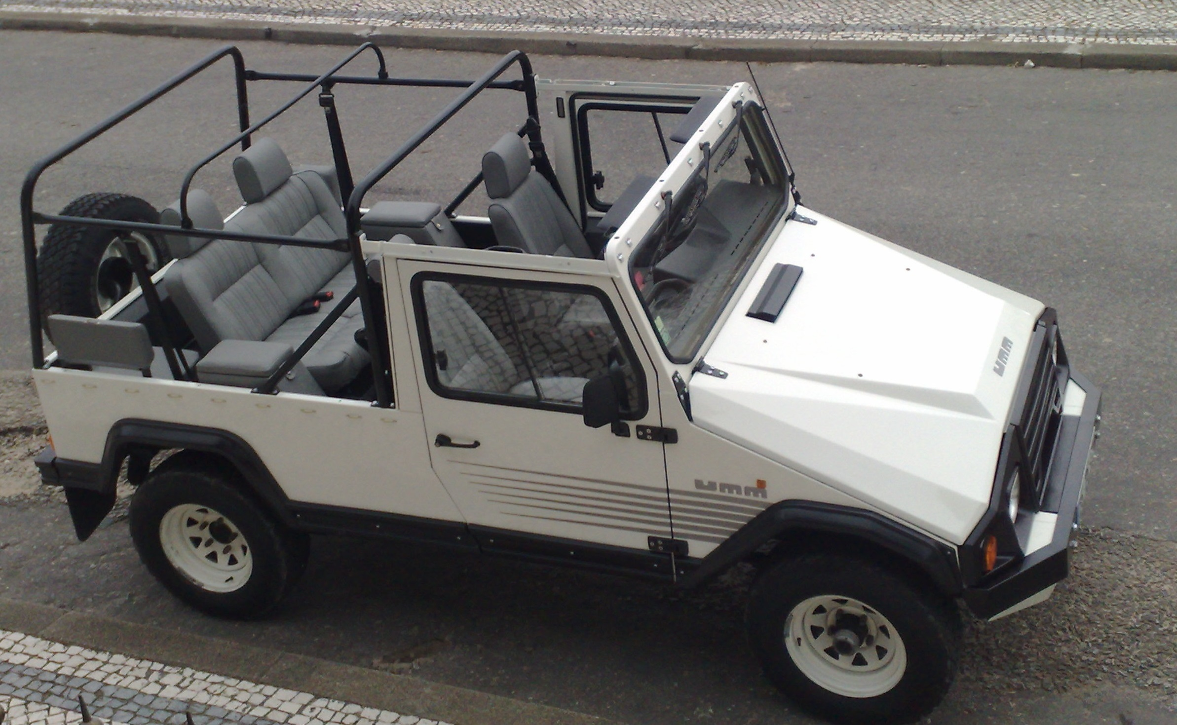 UMM alter 1993